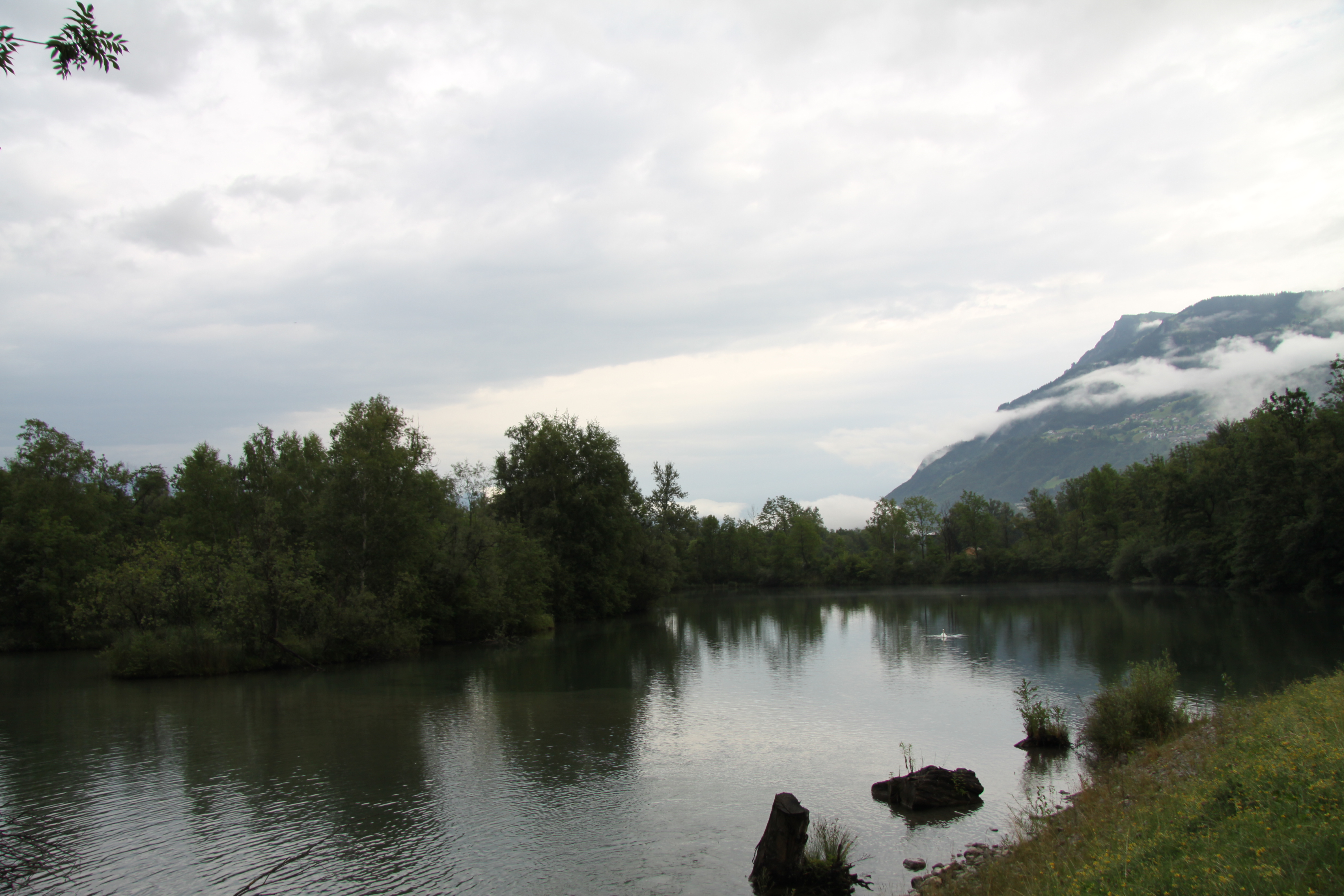 Nature reserve Triesner Heilos around lake Säqaweier near Triesen town in Liechtenstein - Google Maps - Google Earth